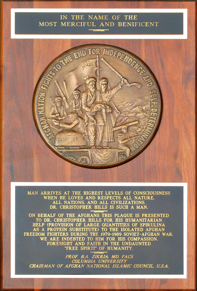 Photograph of a wooden and bronze plaque awarded to Christopher Hills for his hunger relief work in Afghanistan during the Soviet occupation